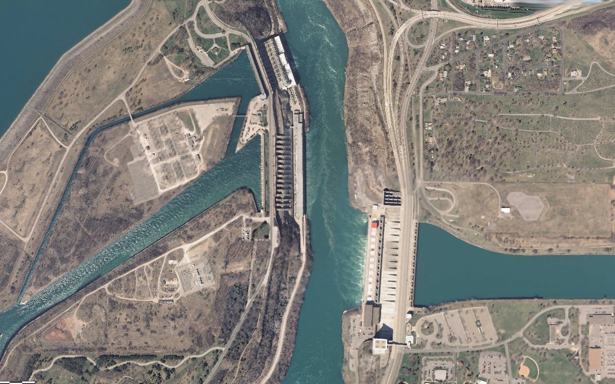 Sir Adam Beck Hydroelectric Power Stations (left) and the Robert Moses Niagara Hydroelectric Power Station (right) along the Niagara River. View shows both channels that divert water from the river towards each dam. Scale of 1:9,028. Cropped to remove the National Map bug, and map legend.